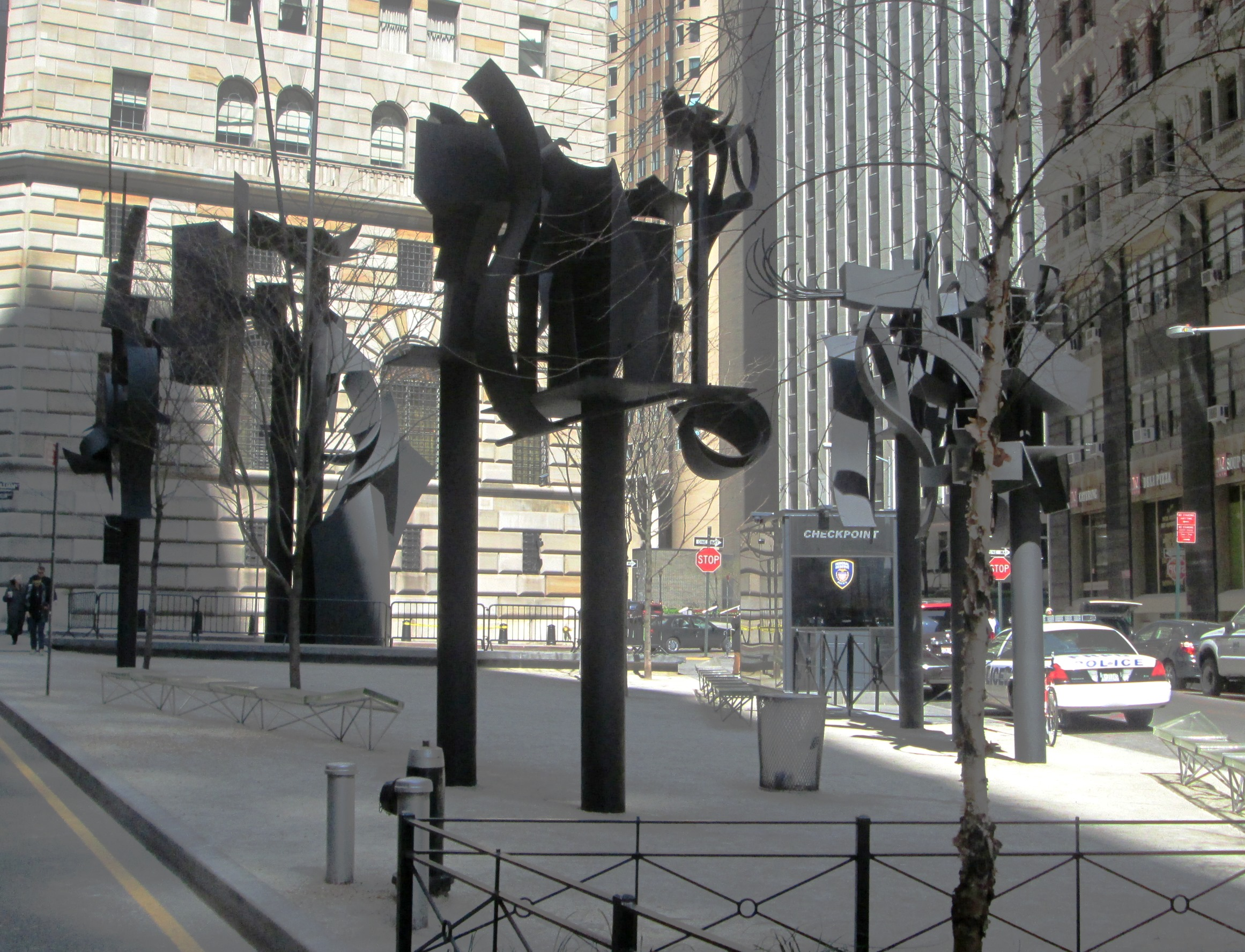 Louise Nevelson Plaza (formerly Legion Memorial Square), a triangle between Maiden Lane, Liberty Street and William Street, was created in 1978 to showcase the sculpture of Louise Nevelson. It is managed by the Federal Reserve Bank of New York.